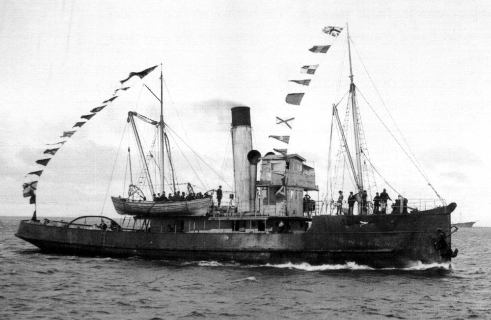 escampavias yelcho of the Chilean Navy